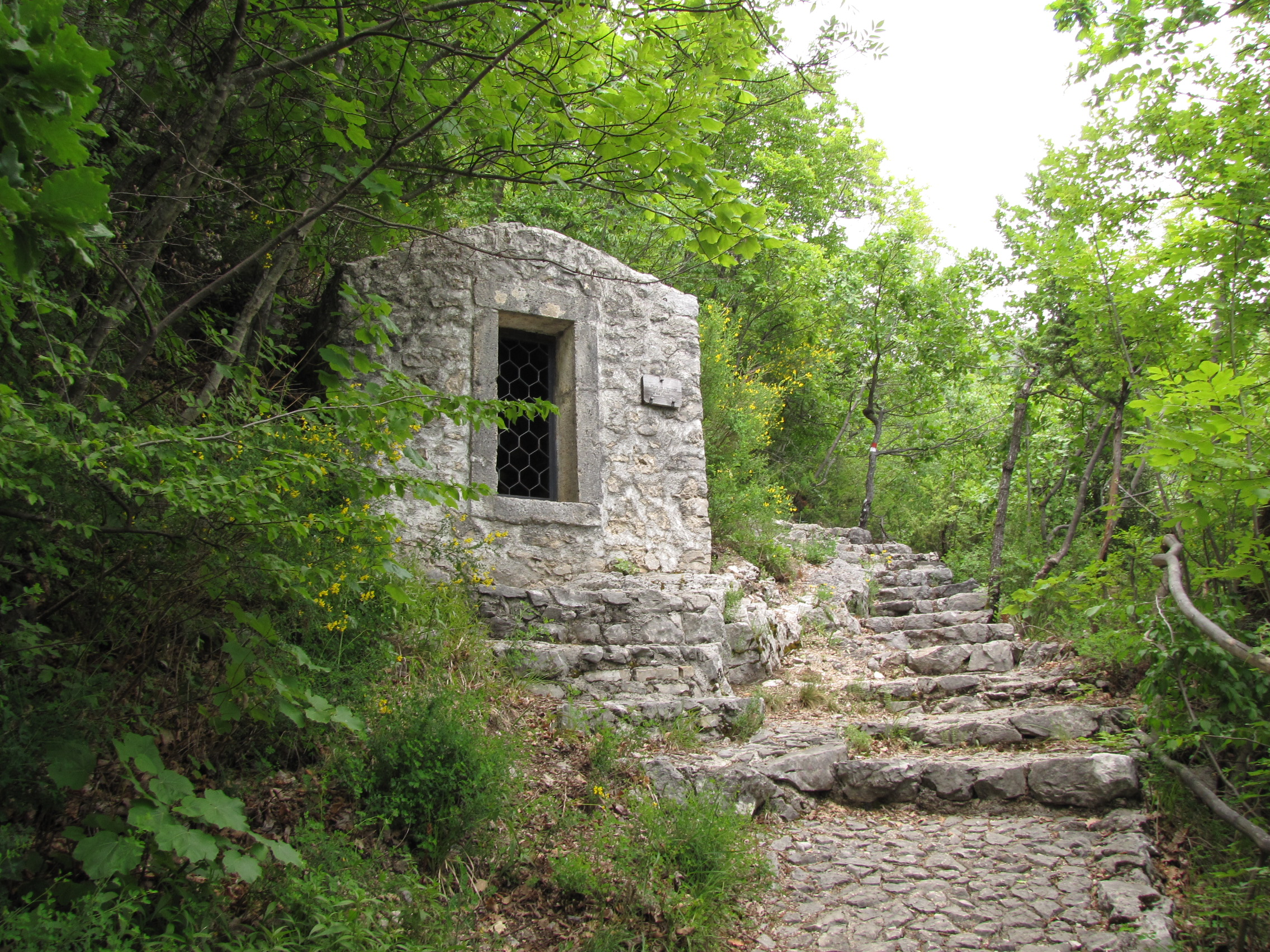 Sacro Speco, church built in a cavern where St. Francis used to pray, near Poggio Bustone sanctuary (Province of Rieti, Lazio, Italy)